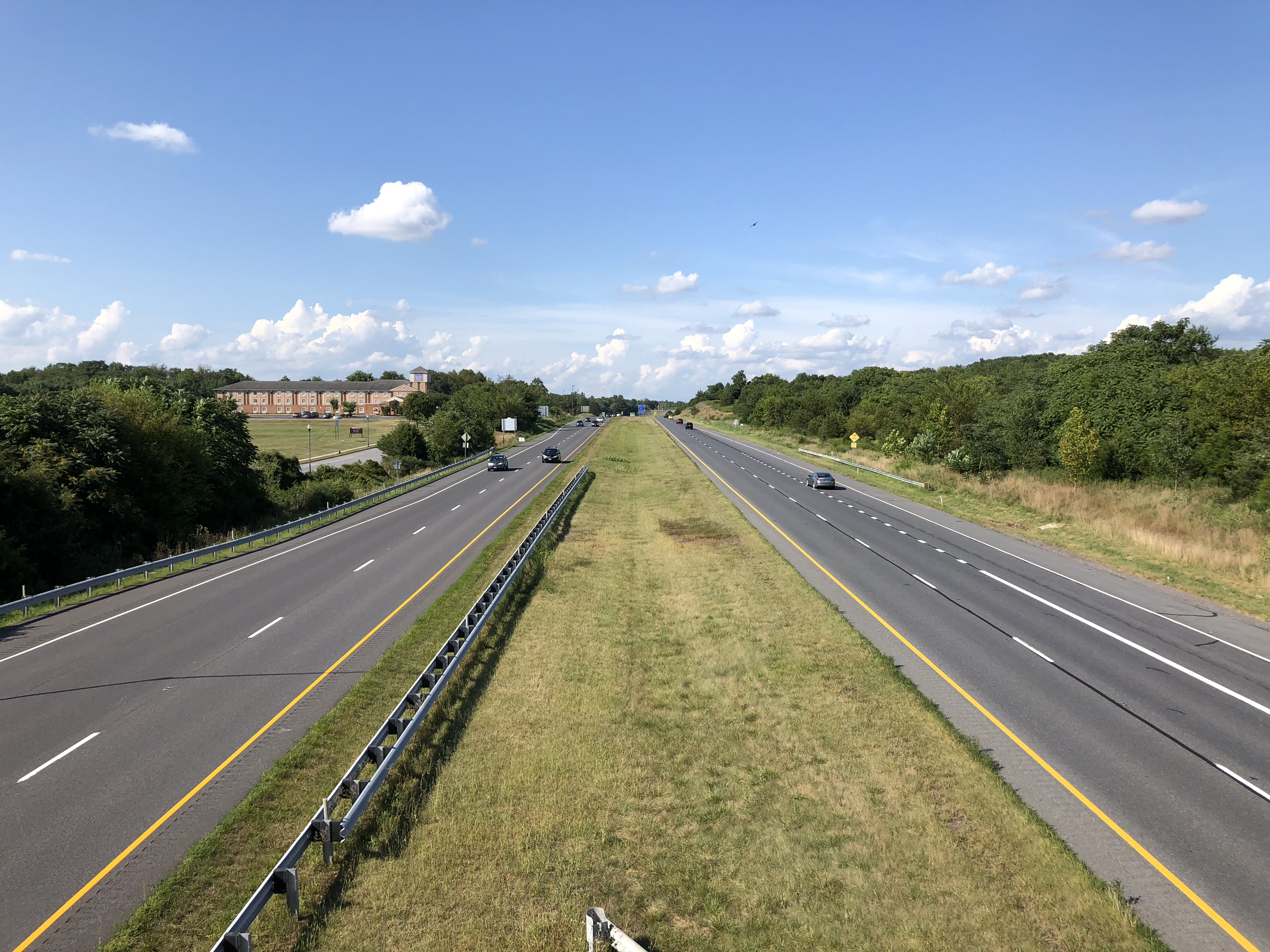 View north along U.S. Route 15 (Catoctin Mountain Highway) from the overpass for Maryland State Route 140 (Taneytown Pike) in Emmitsburg, Frederick County, Maryland